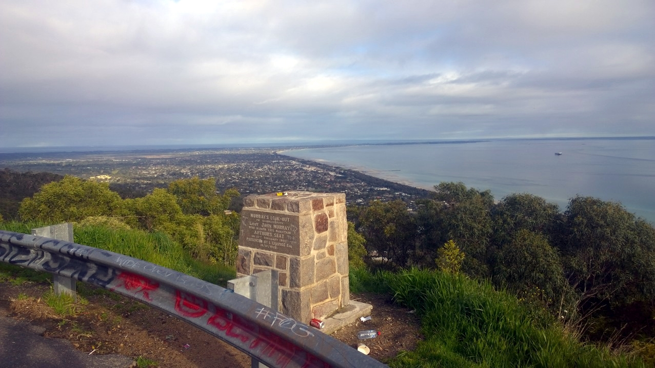 Overgrown, vandalised and rubbish. View from Murrays lookout, Arthurs Seat, Victoria, Australia. 2014.